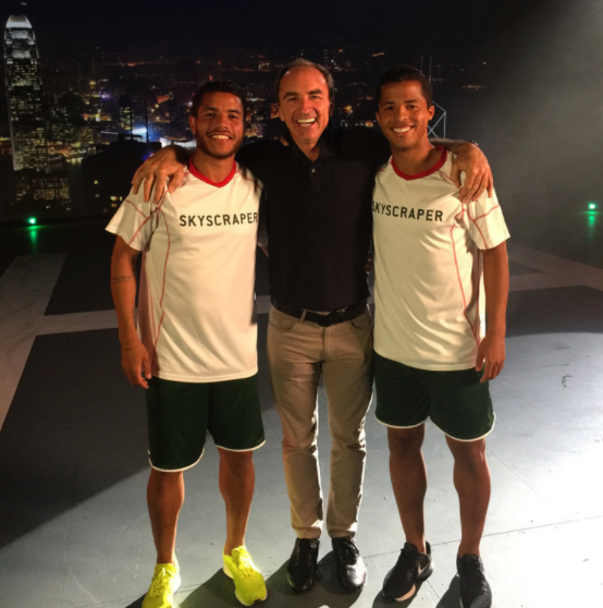 Dario Brignole during the Universal Pictures Skyscraper commercial shooting in Los Angeles, CA.